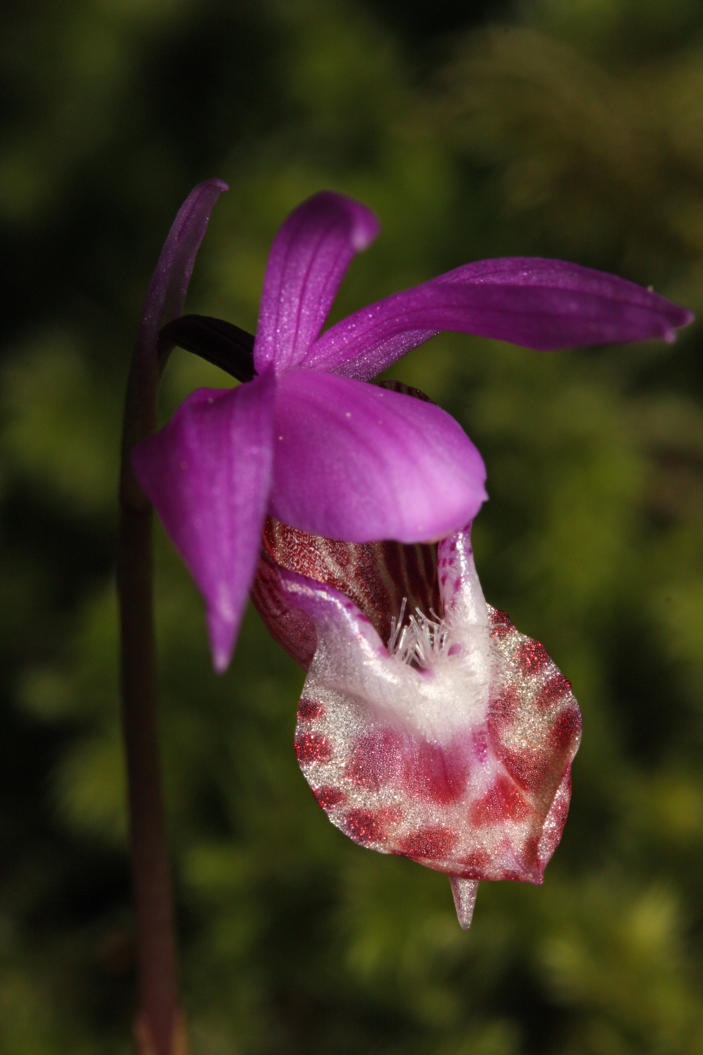 Calypso bulbosa var. occidentalis, the Fairy Slipper. The occidentalis variety is only found in western North America.